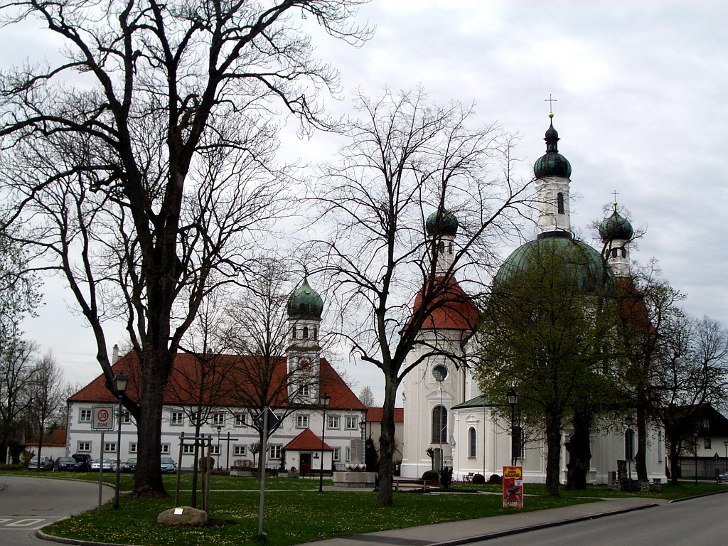 Klosterlechfeld, Germany: Wallfahrtskirche Maria Hilf, from Franziskanerplatz